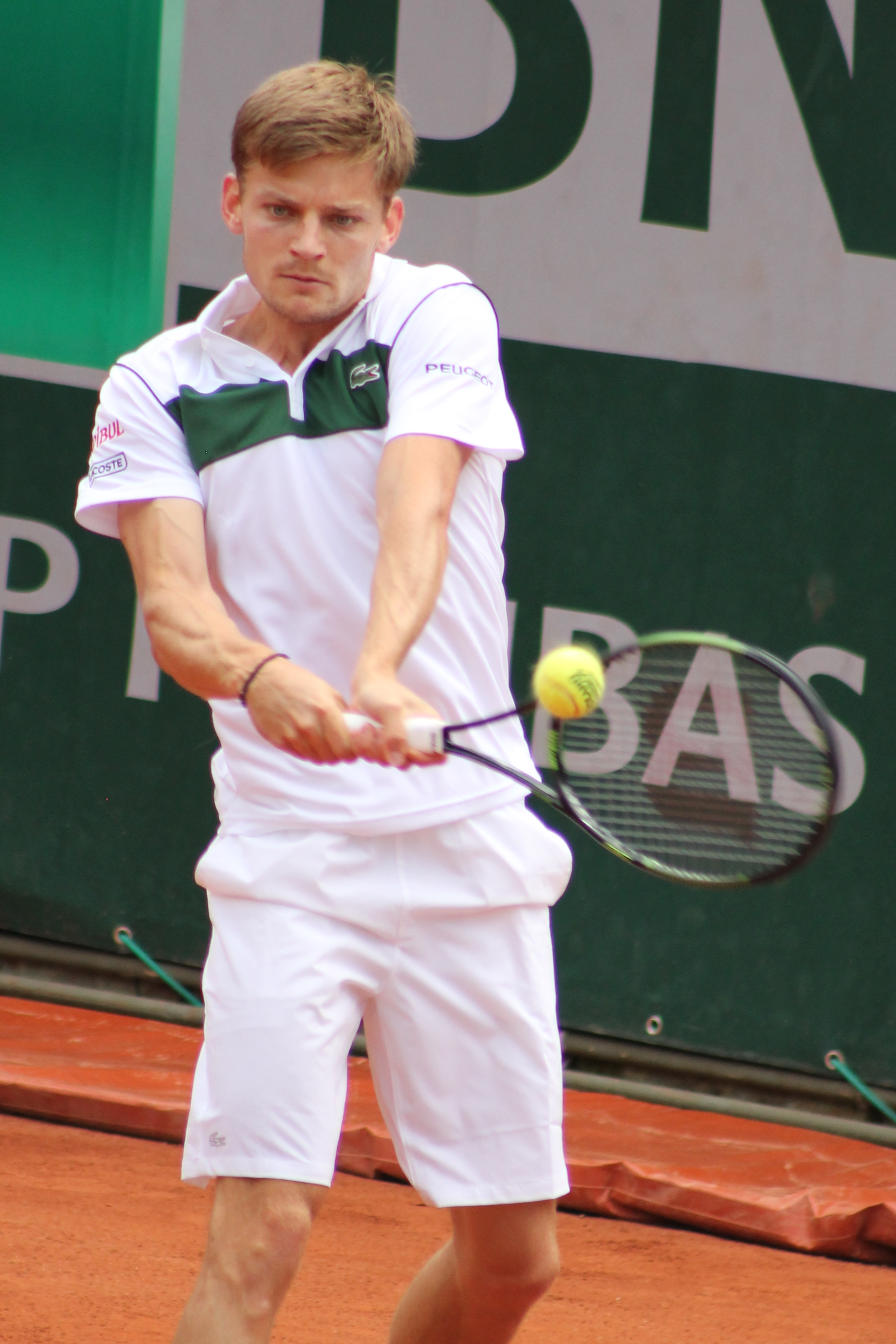 Goffin RG15 (15)